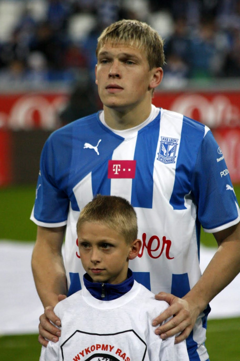 Latvian association football player Artjoms Rudņevs